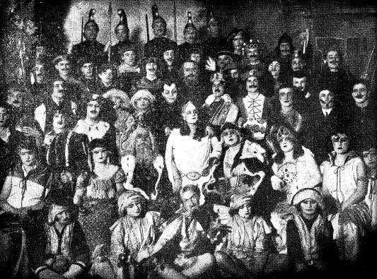 Group photograph of amateur actors in Oradea, Romania, costumed for the performance of Victor Eftimiu's Înşir'te mărgărite. As published in Familia magazine, 1-2/1927.